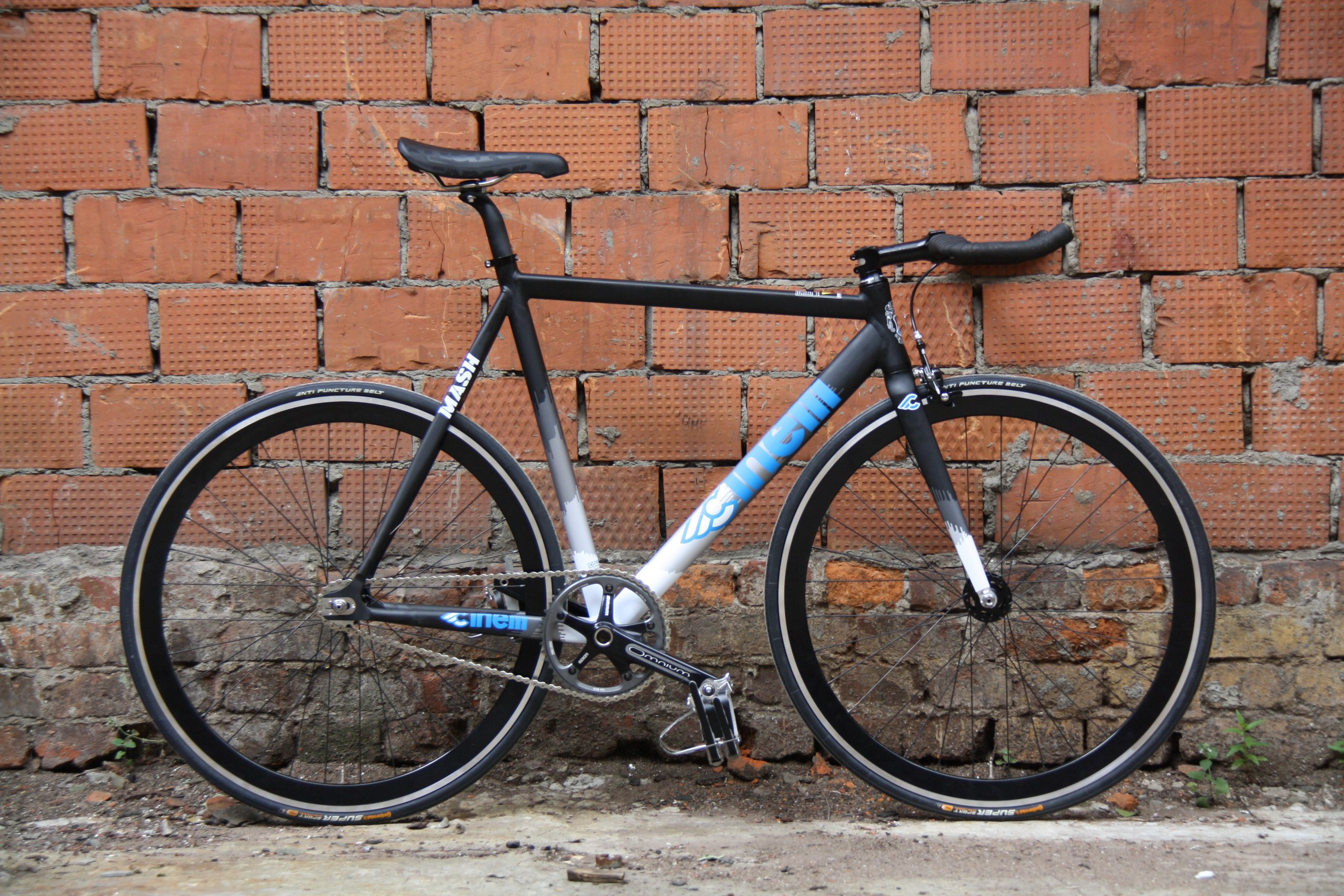 Every day Cinelli Mash build for Moscow rider. Bar-stem-tape combo from Cinelli, Sram "Omnium" cranks, Selle San Marco "Concor Light" saddle, Exustar "E-PT" incredible pedals, Fobos wheelset on Continental "Supersport Plus" tires.